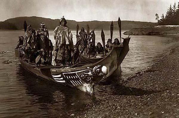 The illustration documents Two canoes pulled ashore with wedding party, bride and groom standing on "bride's seat" in the stern, relative of the bride dances on platform in bow. Film footage of this scene was used in Curtis' 1914 feature film In the Land of the Head Hunters.